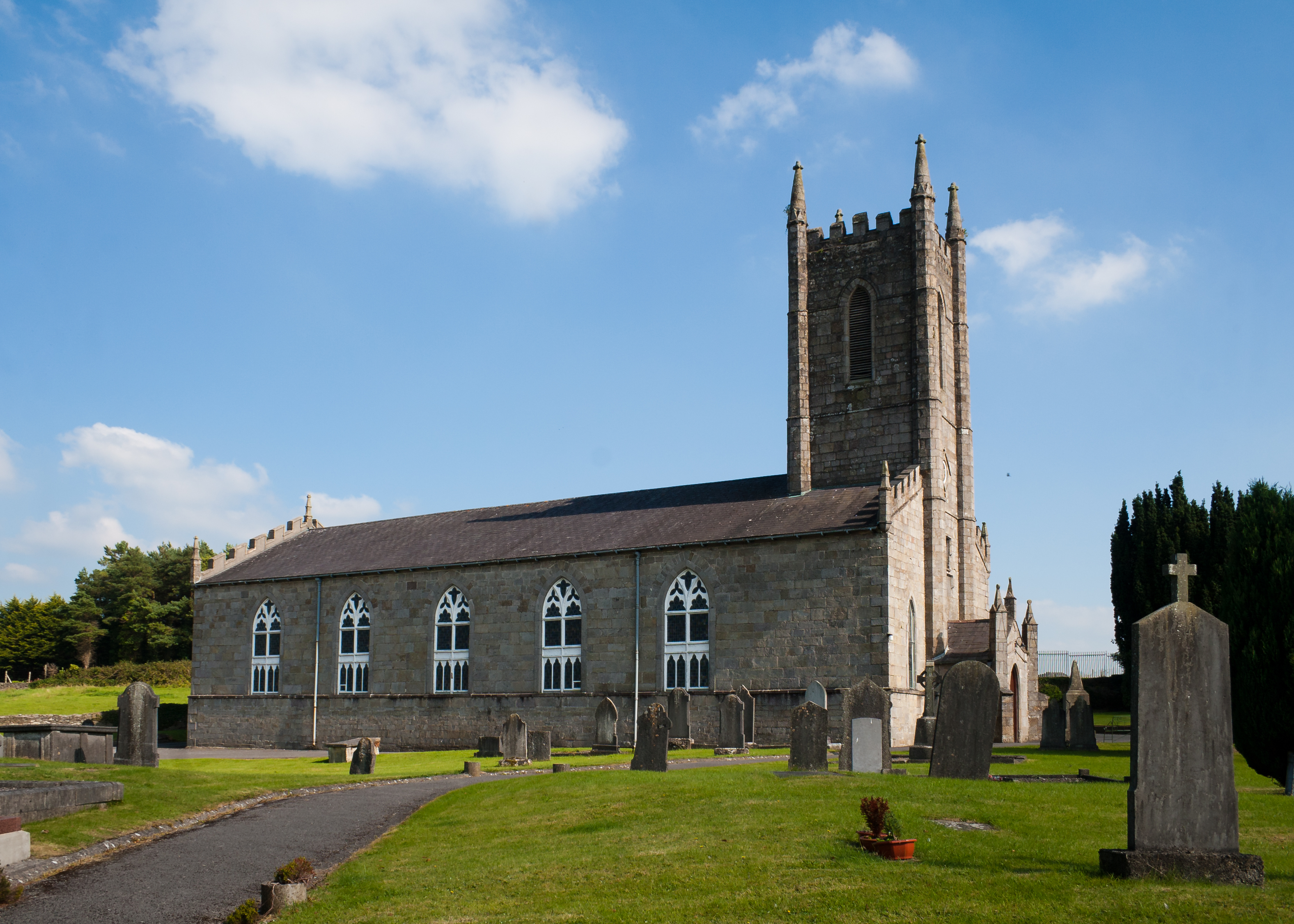 St. Cronan's Anglican Parish Church, designed by the Roscrea architect James Sheane (died 1816) in 1812, restored by Sir Thomas Newenham Deane in 1879.